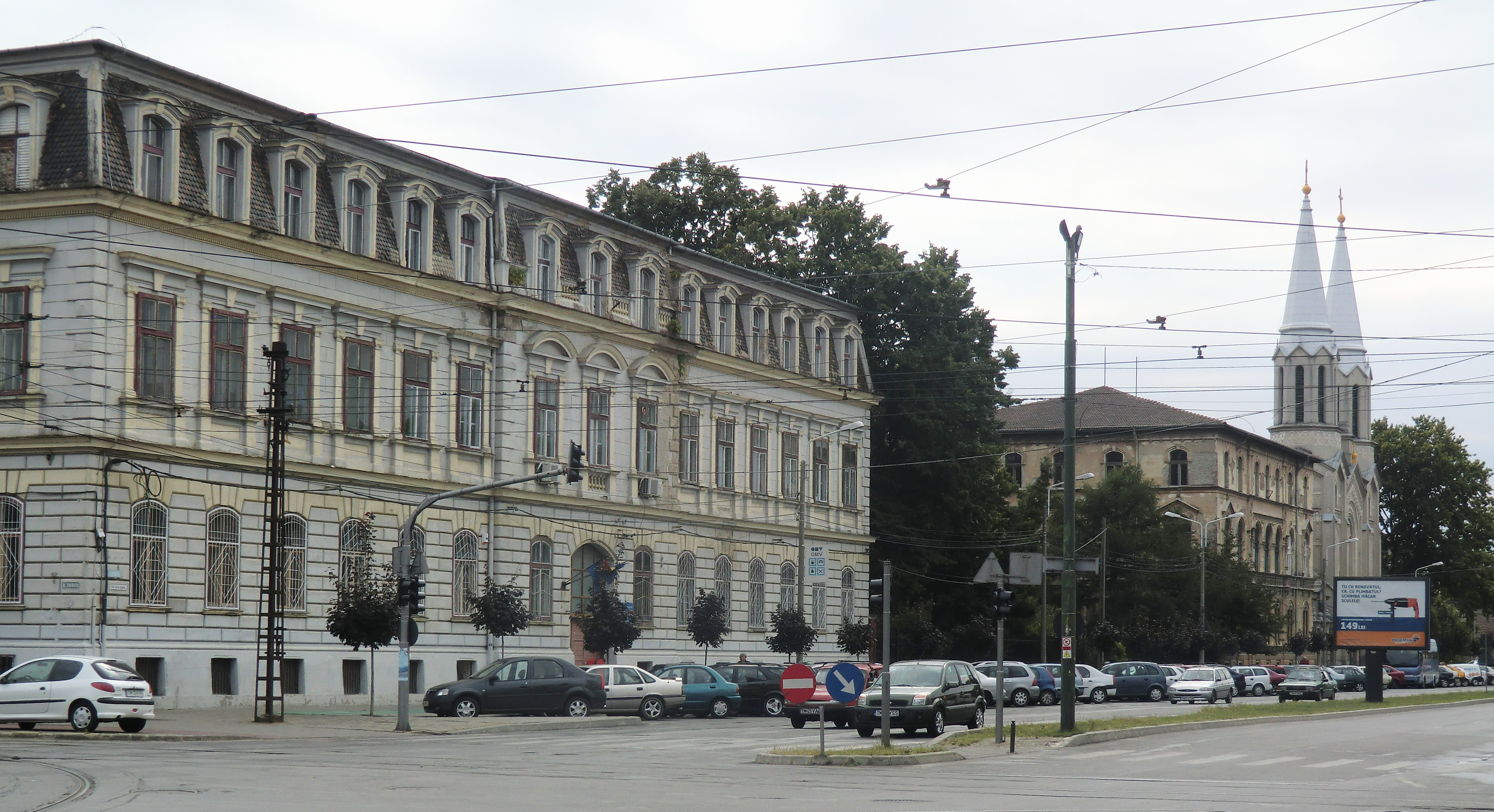 Notre Dame complex in Timișoara, Romania, built 1881–1895. Left building built 1882, right building built 1895, the church built 1894.